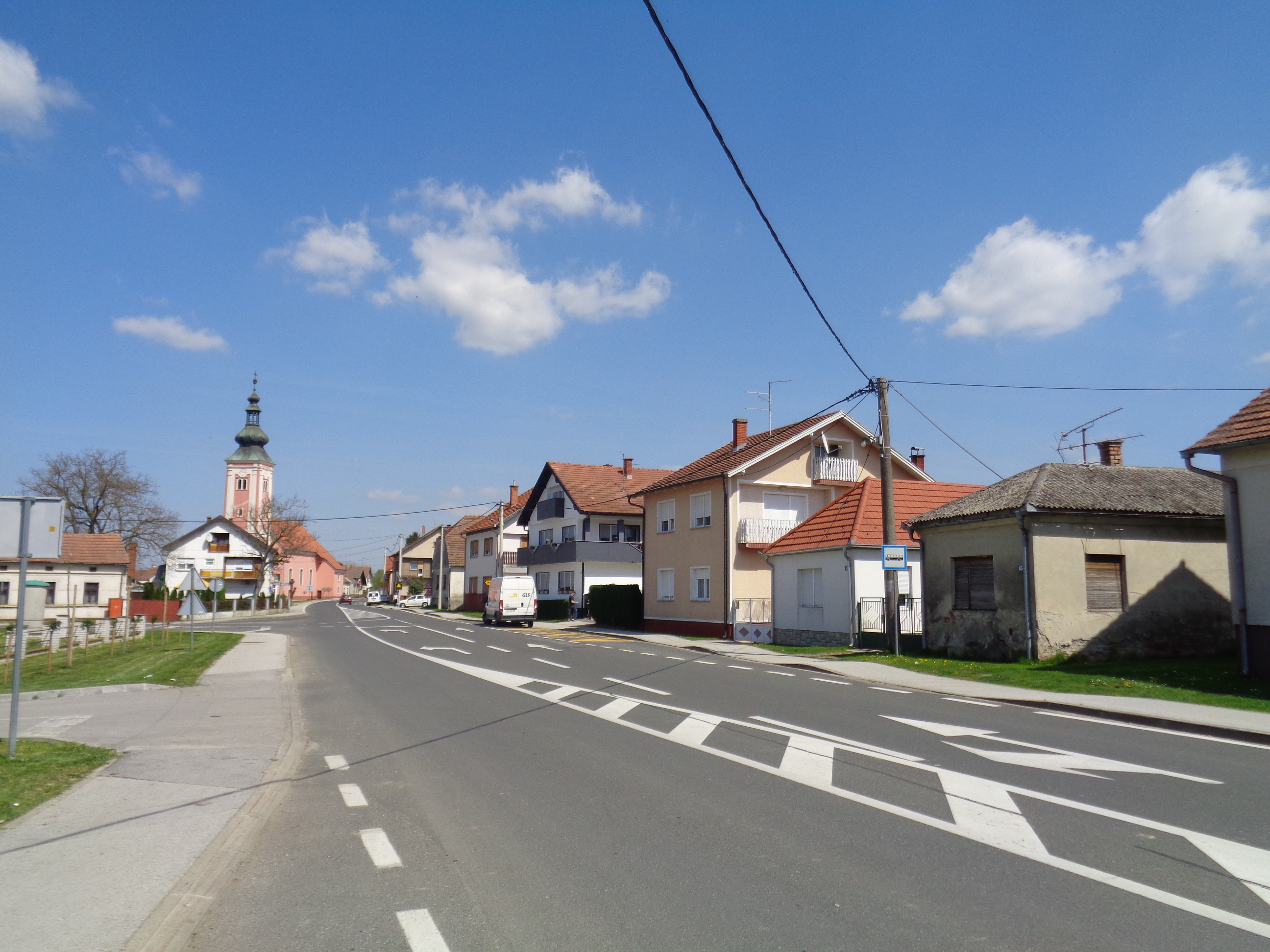 Sveti Juraj u Trnju village, Donji Kraljevec municipality, Medjimurje County, Croatia